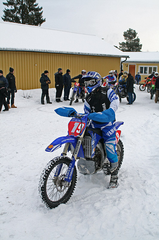 Mats Nilsson, Trettondagsrundan, swedish winter enduro